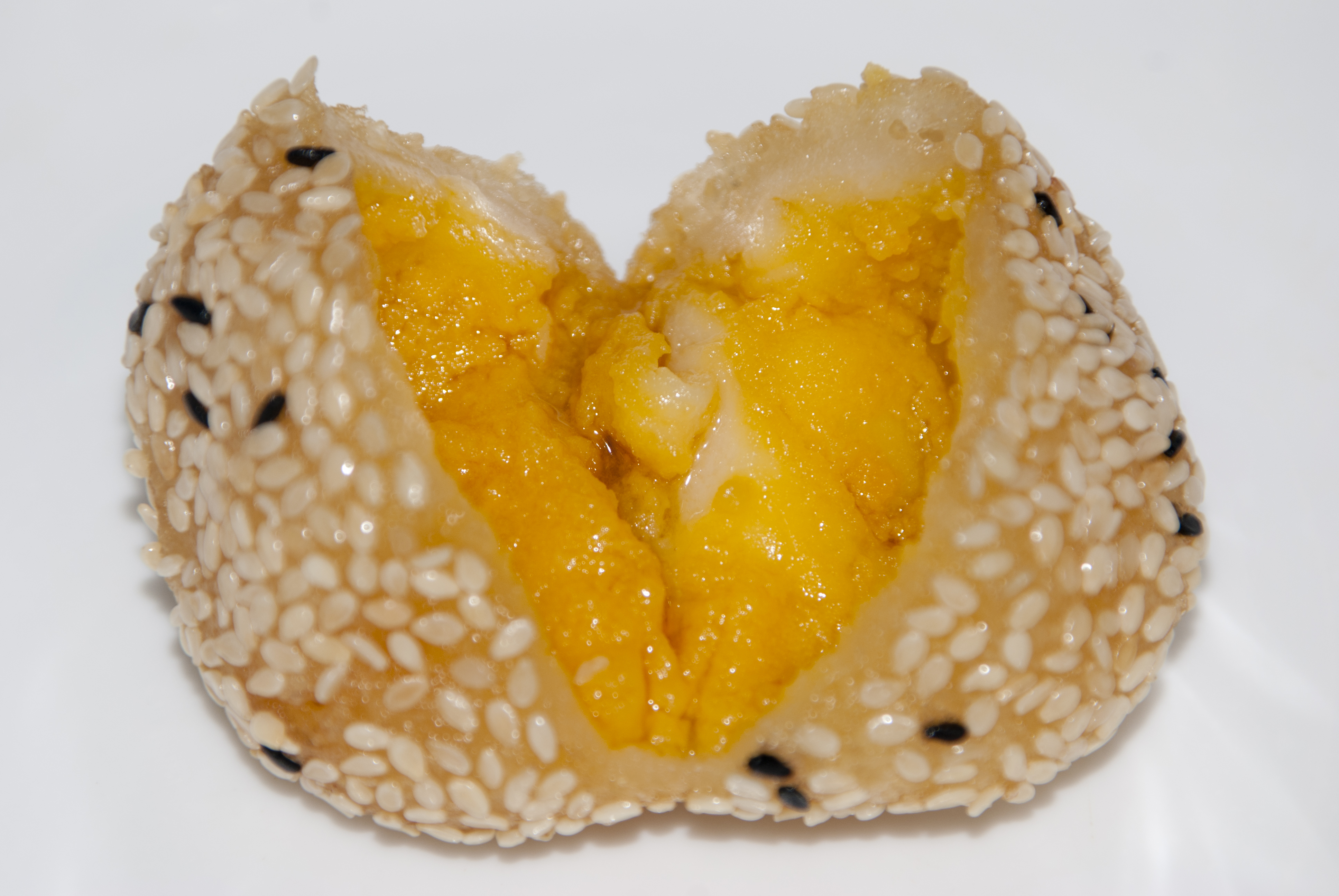 Jiandui with fillings and black & white Sesame